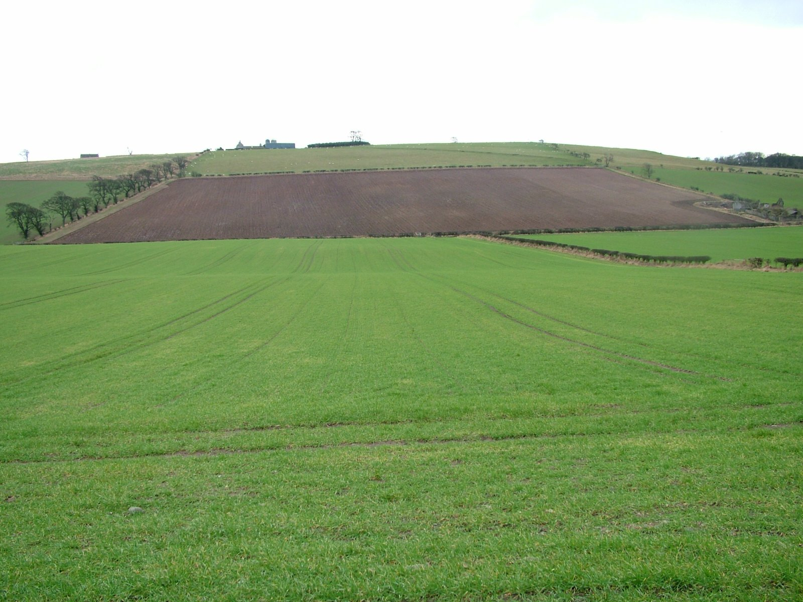 The site of the Battle of Flodden Field in February 2005. This image shows only the western side of the battlefield. The Scottish army advanced down the hill which in this image is ploughed (in the direction of the camera). The English advanced down the grassy field away from the camera. The boundary between the ploughed field and the grassed field in the foreground forms a valley between the two fields.